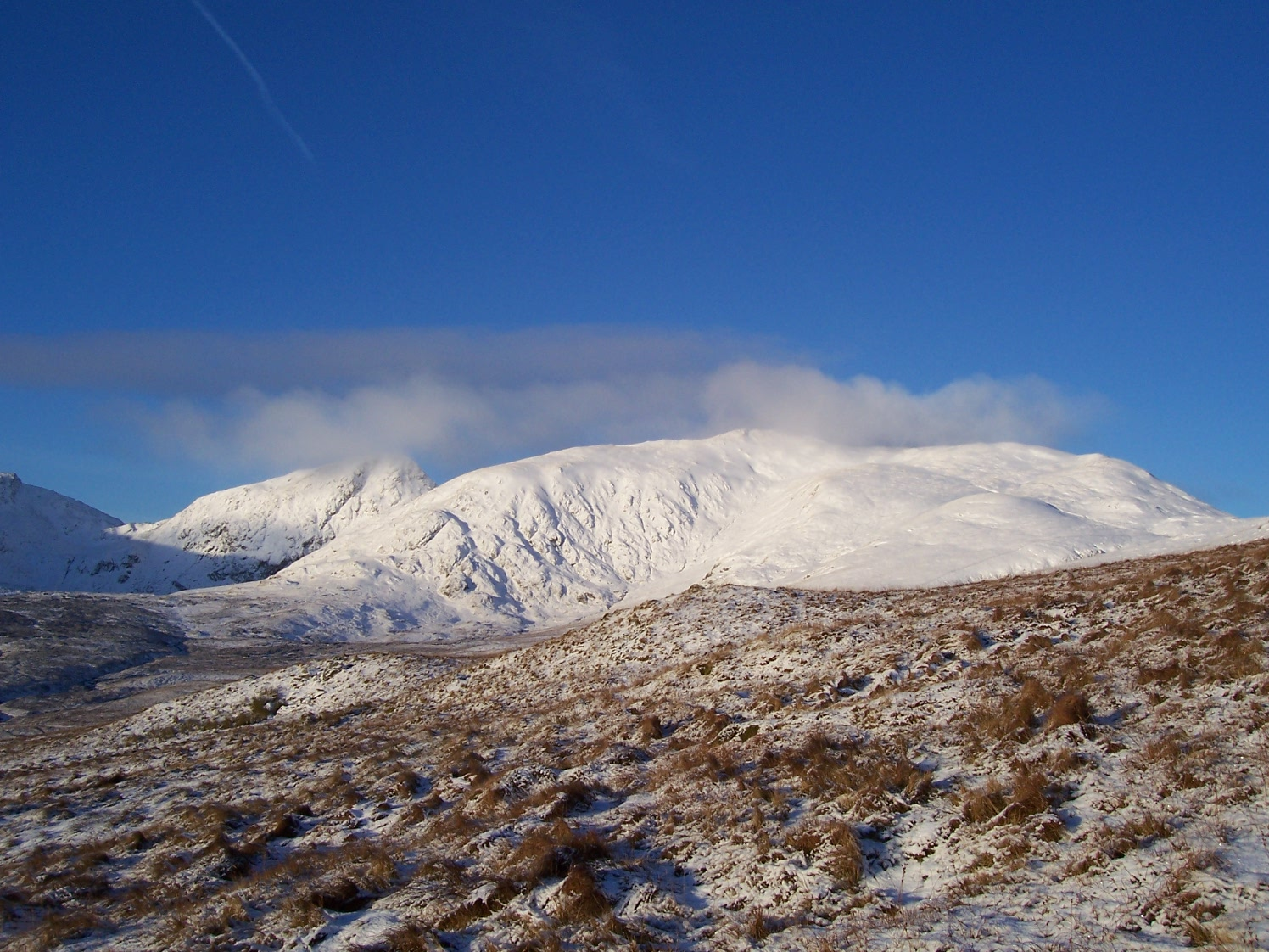 Meall Garbh from the slopes of Meall Greigh Taken by Stuart Westwater 12/06